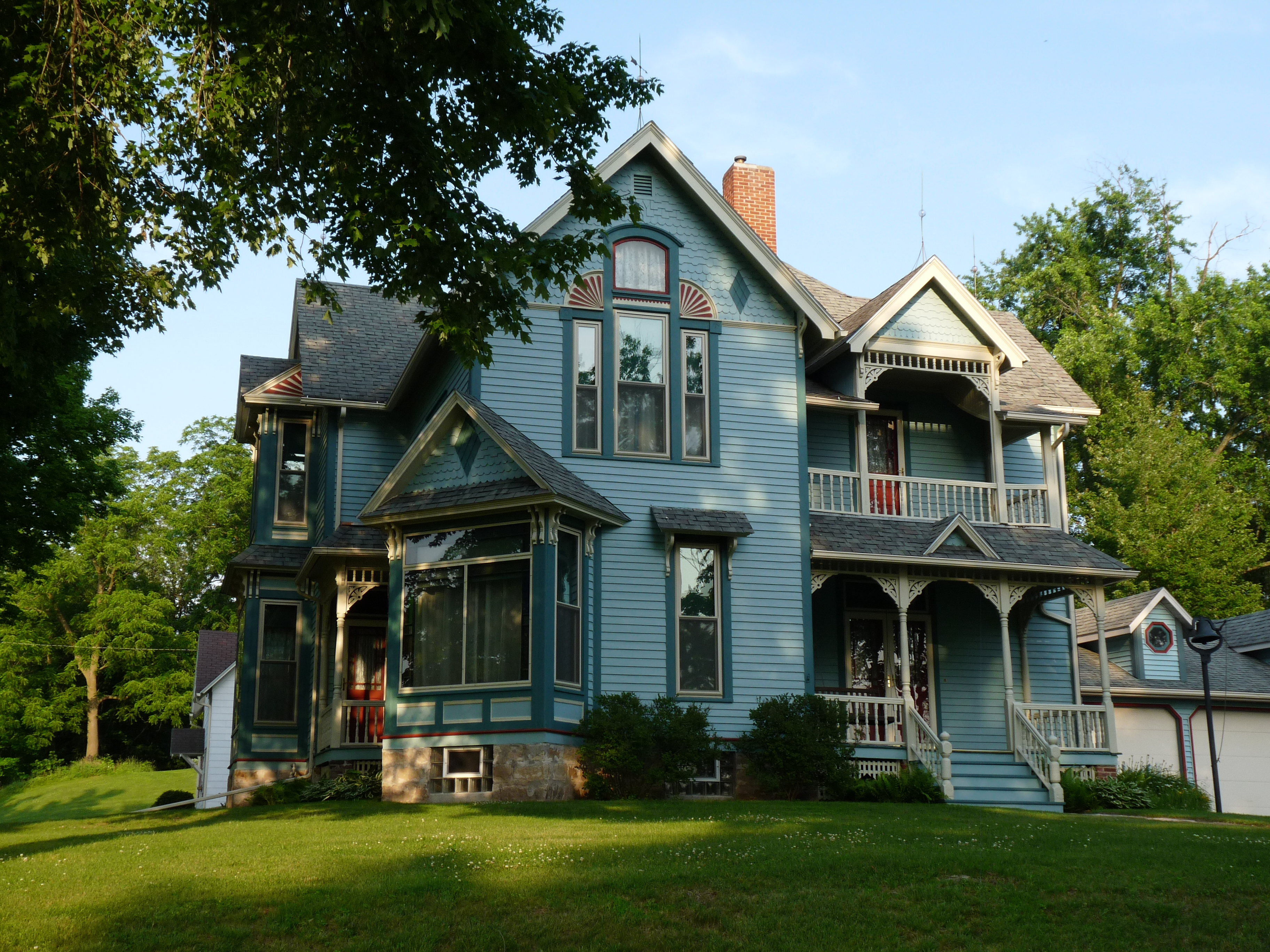 Decatur Dickinson, a businessman in Neillsville, Wisconsin, built this Queen Anne house in 1891. Today it is on the National Register of Historic Places.